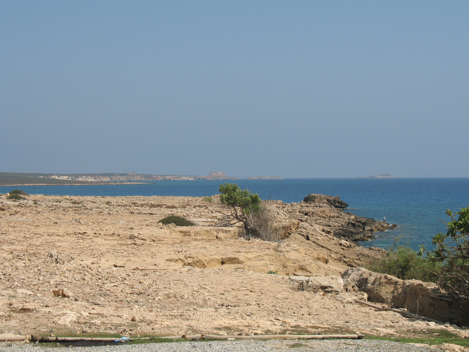 Cape Apostels Andreas (Zafer Burnu), Peninsula Karpas, Cyprus